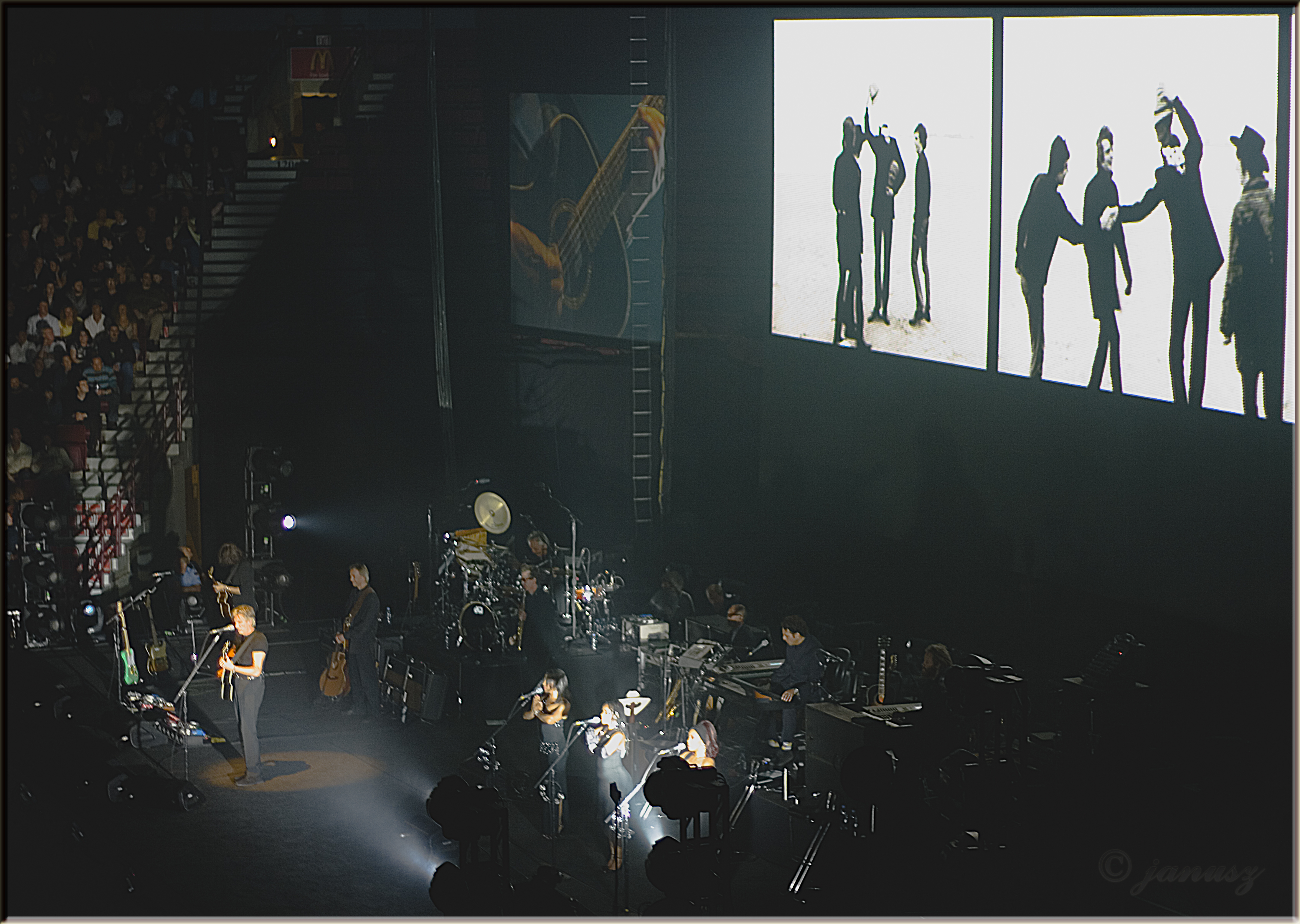 Roger Waters in Vancouver 2007 - Dark side of the Moon - Tour [1] 'Piper At The Gates Of Dawn' On Black: See your photos in a new lightPink Floyd - Roger Waters - Piper At The Gates Of Dawn